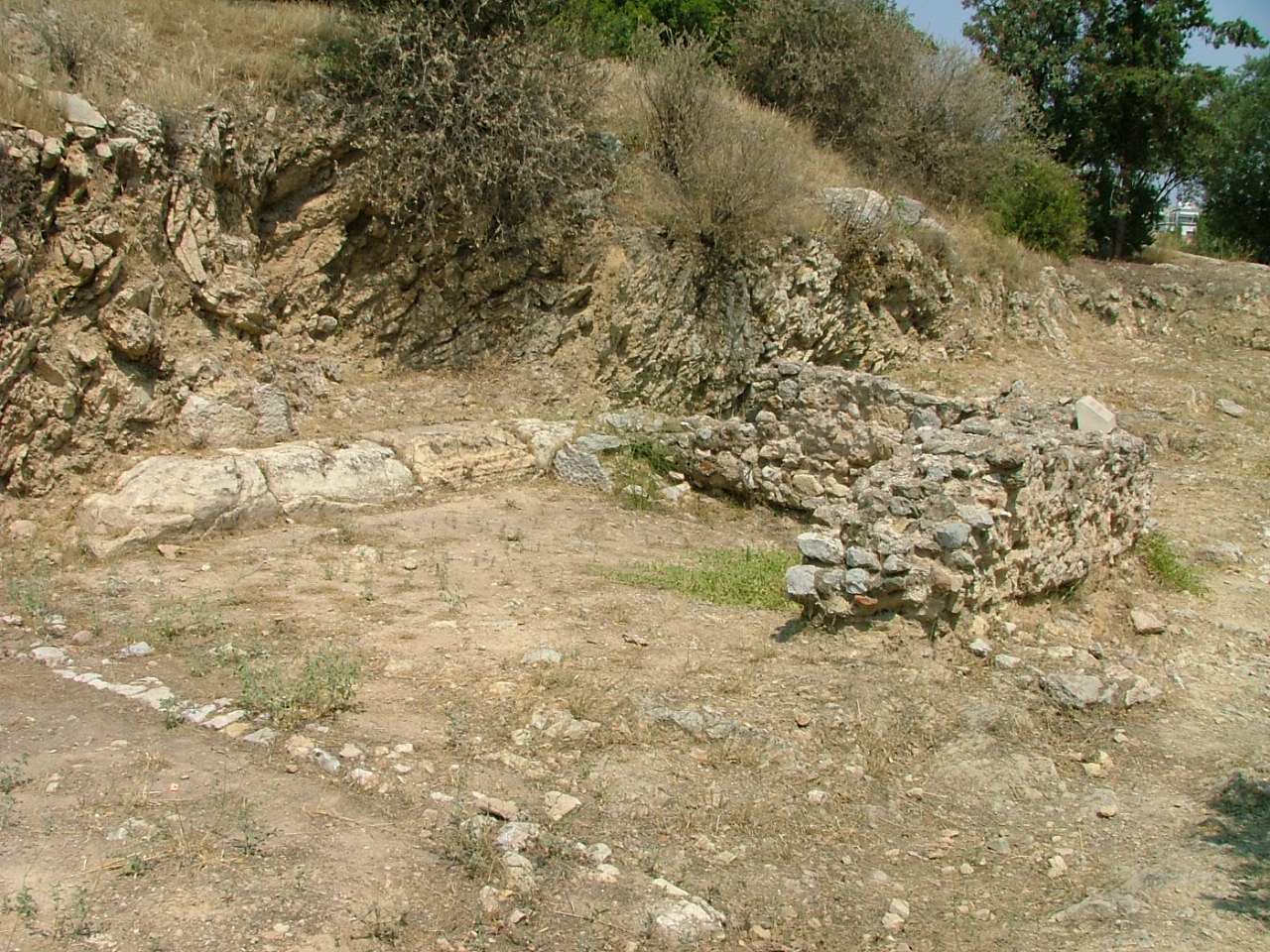 Strategeion in the Ancient Agora of Athens, Greece.